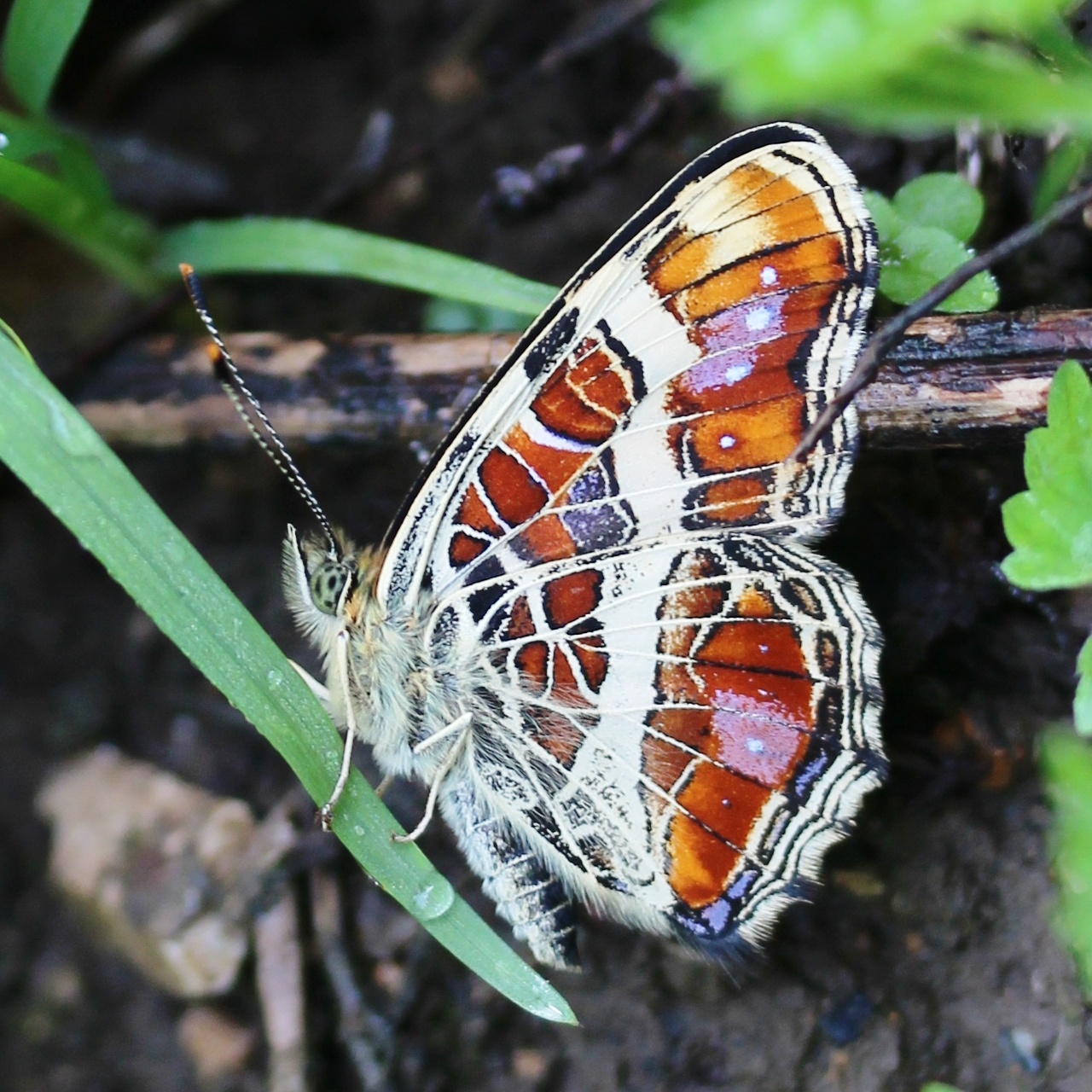 Araschnia burejana strigosa in Mount Ibuki, Japan.Front side is File:Araschnia burejana strigosa.JPG